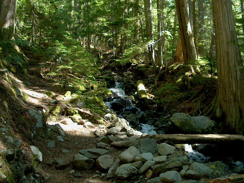 Forest on Mount Garibaldi, Garibaldi Provincial Park, British Columbia, Canada